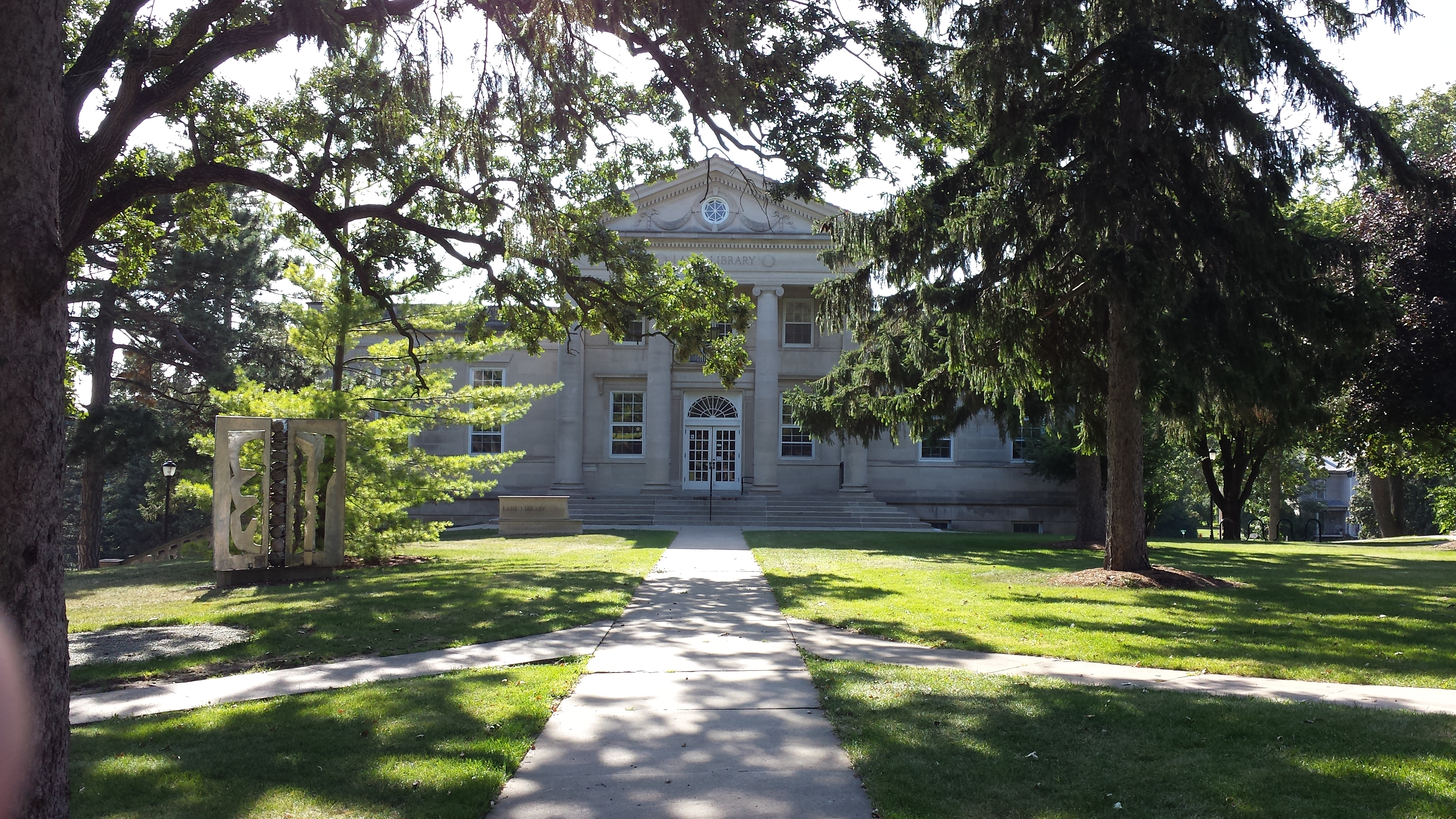 Lane Library, Ripon College